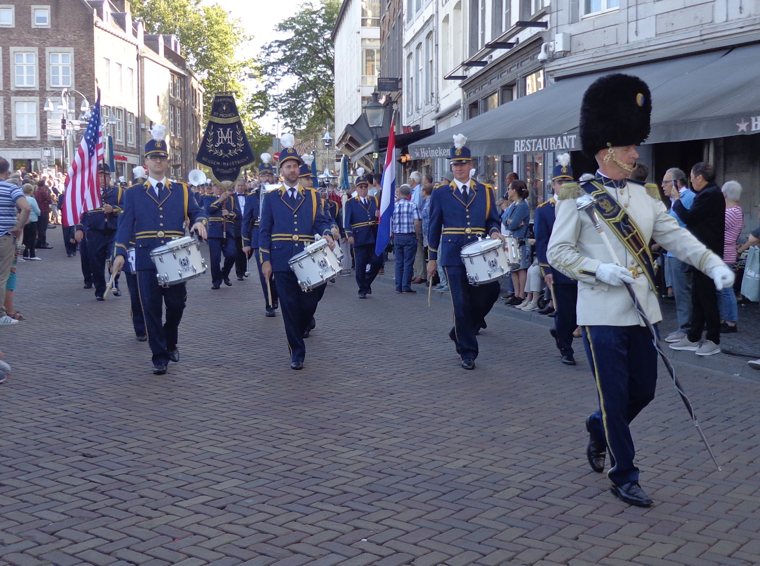 Marching band St Michael from Heugem, Maastricht, The Netherlands in the Ticker Parade, celebrating that it is 75 year ago that Maastricht was liberated.